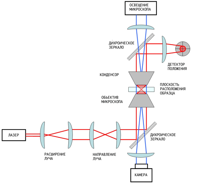 Scheme of optical tweezers, description in Russian